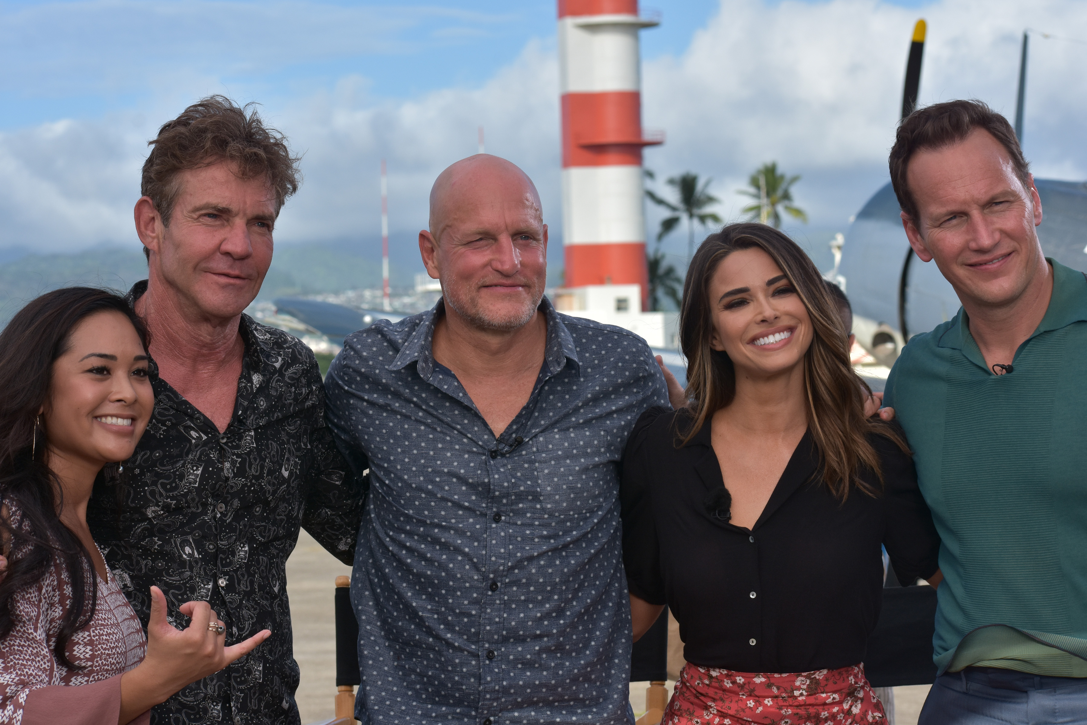 Lifestyle reporter Jobeth Devera and Extra TV correspondent Jennifer Lahmers strike a pose with Midway cast members Dennis Quaid, Woody Harrelson, and Partick Wilson in front of the historic Ford Island Field Control Tower.